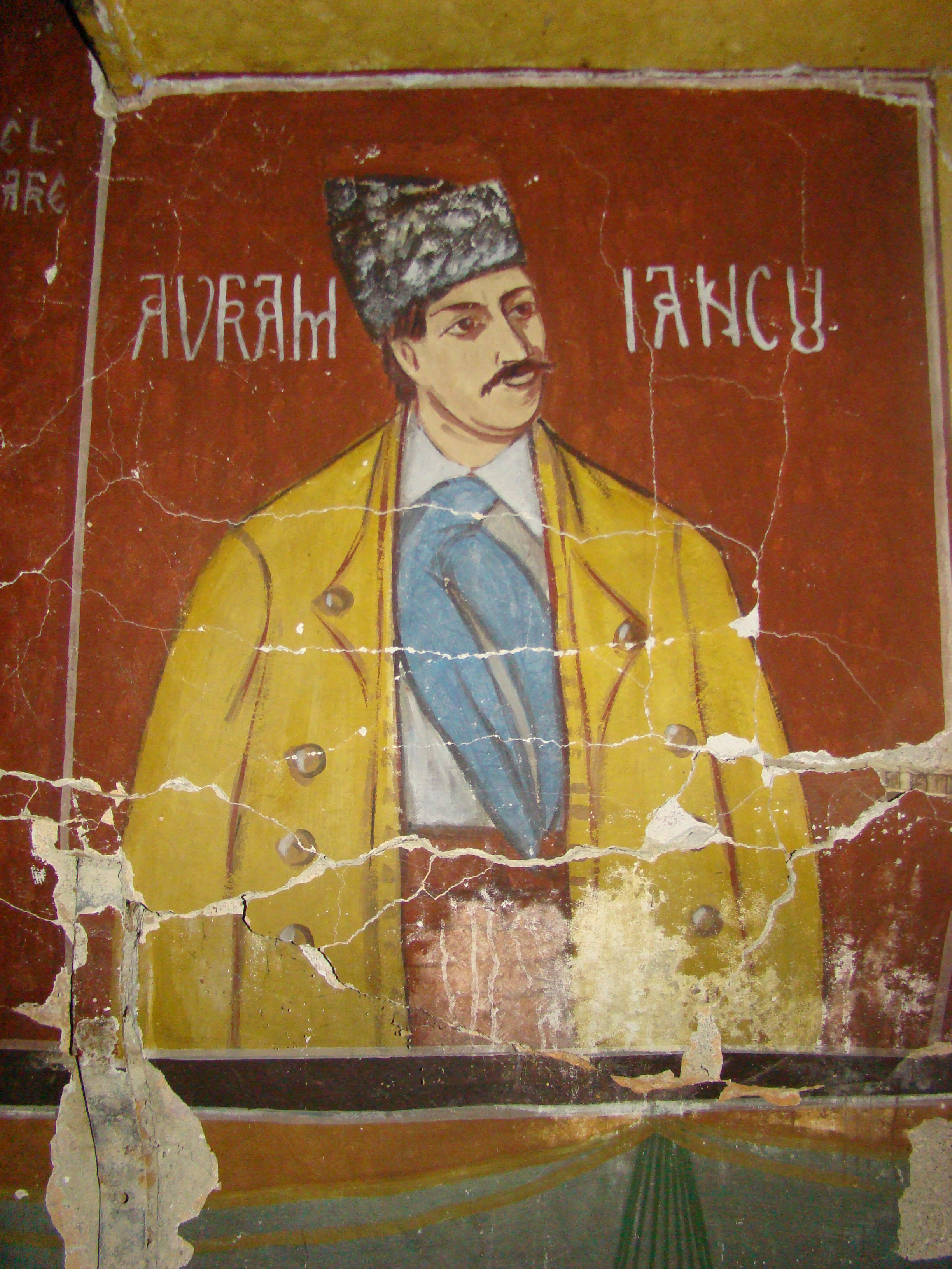 Orosfaia, Bistrița-Năsăud county, Romania